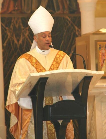 Archbishop Salvatore J. Cordileone during a homily